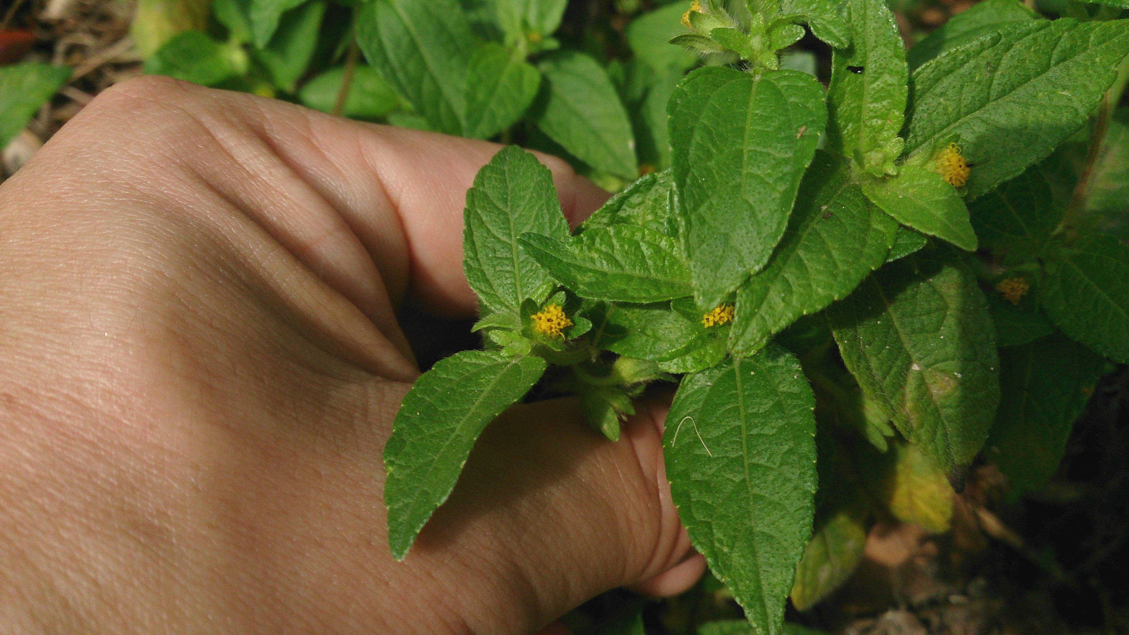 Eleutheranthera ruderalis. Common name: Ogiera.